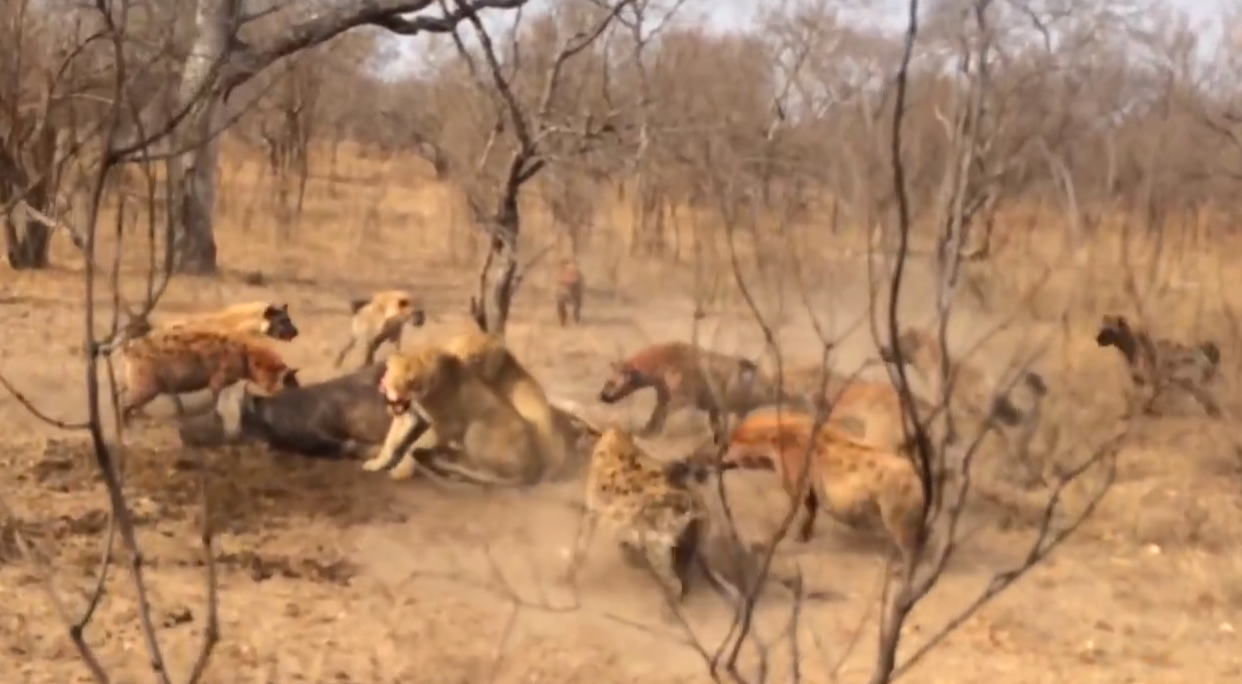 Hyenas clashing with lions at the Sabi Game Reserve